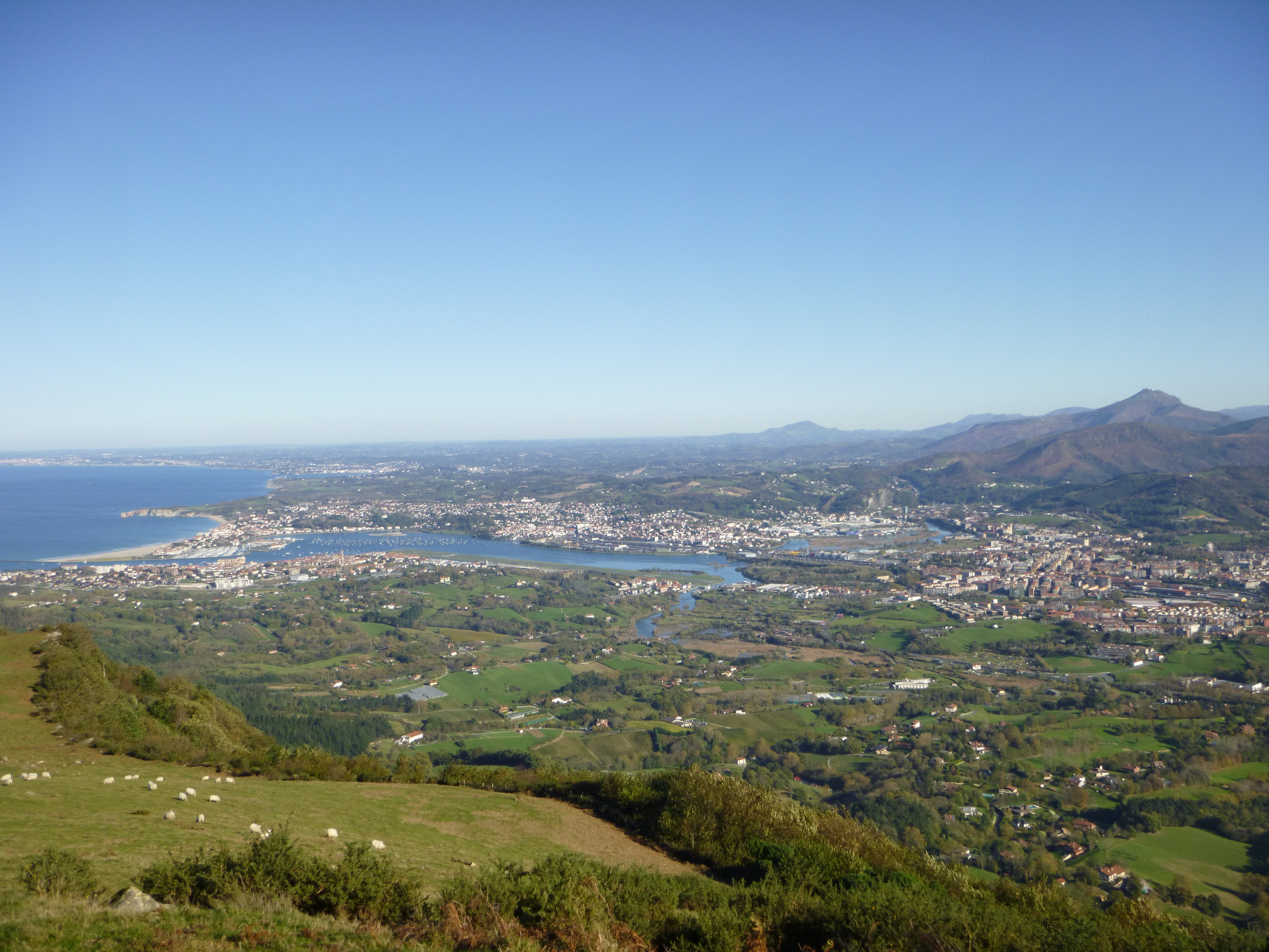 View from Jaizkibel